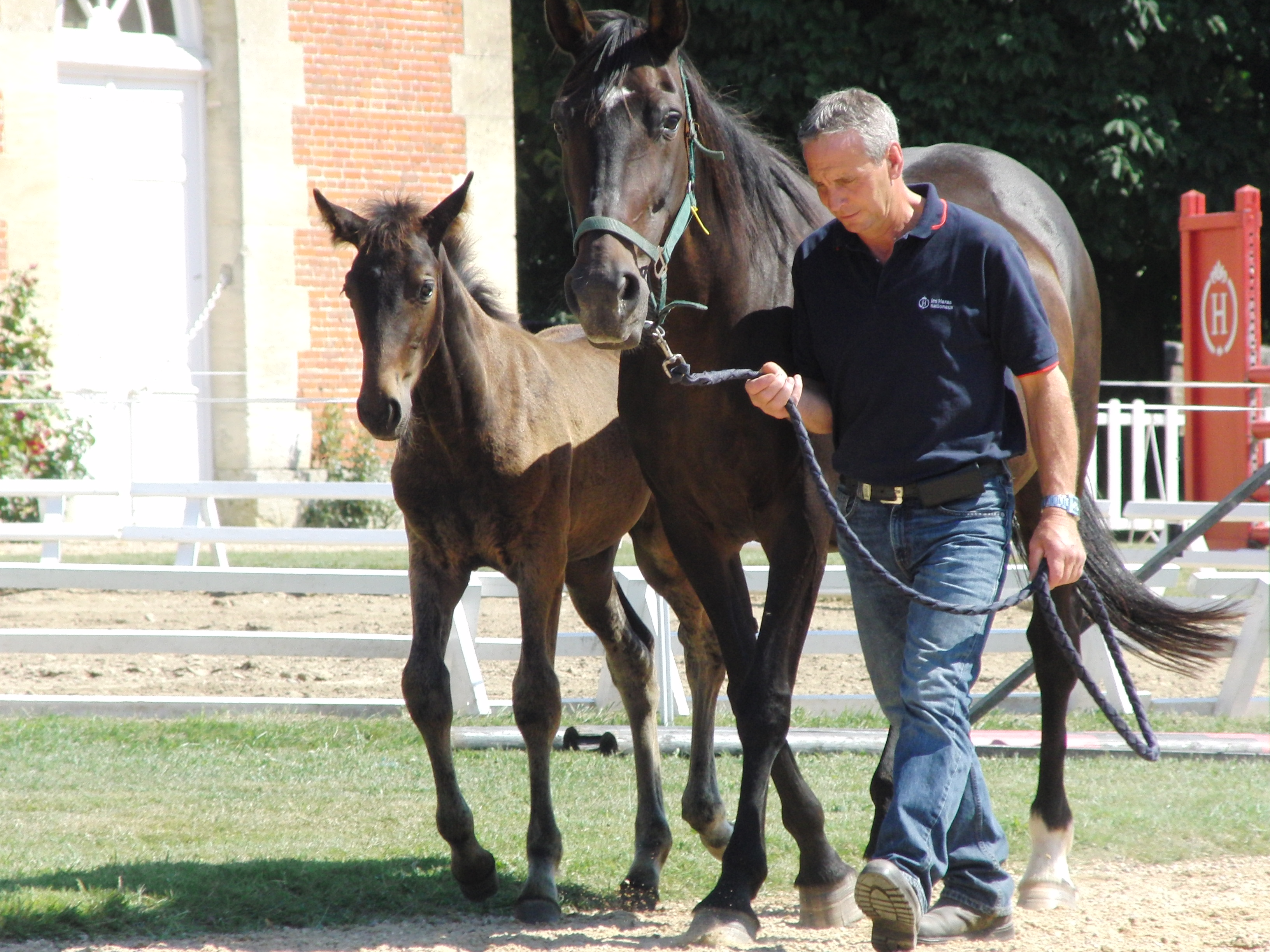 A french trotter mare and her foal showed during the "Jeudis du Pin", Haras du Pin, Orne, France